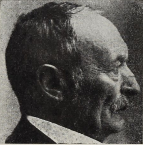 Szentmártoni Darnay Kálmán (1864–1945) régész, muzeológus, író, királyi tanácsos, magyar királyi tanácsos és magyar kormányfőtanácsos, az állami Darnay-múzeum alapító igazgatója